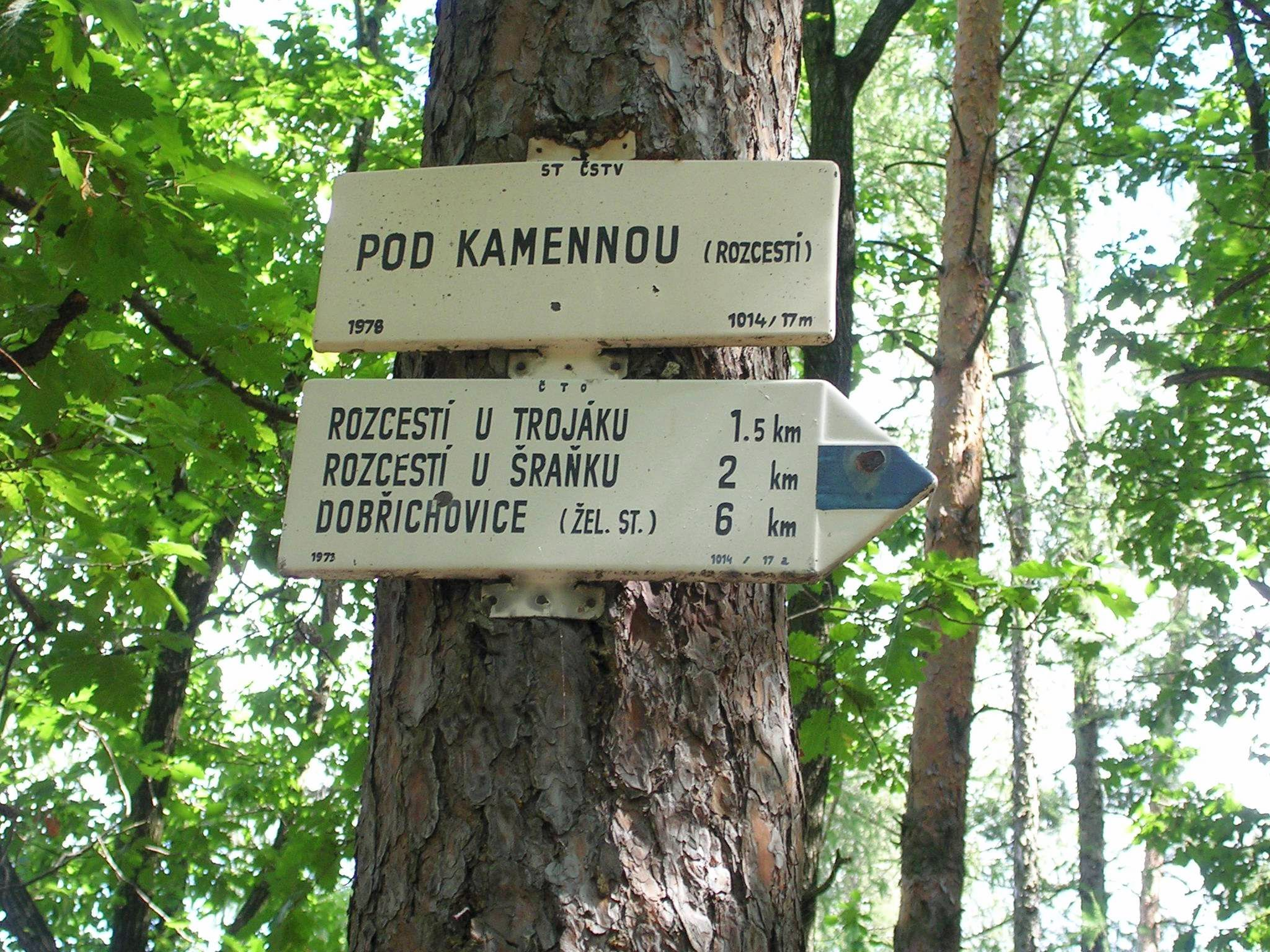 Footpath signs near Řevnice, Czech Republic.